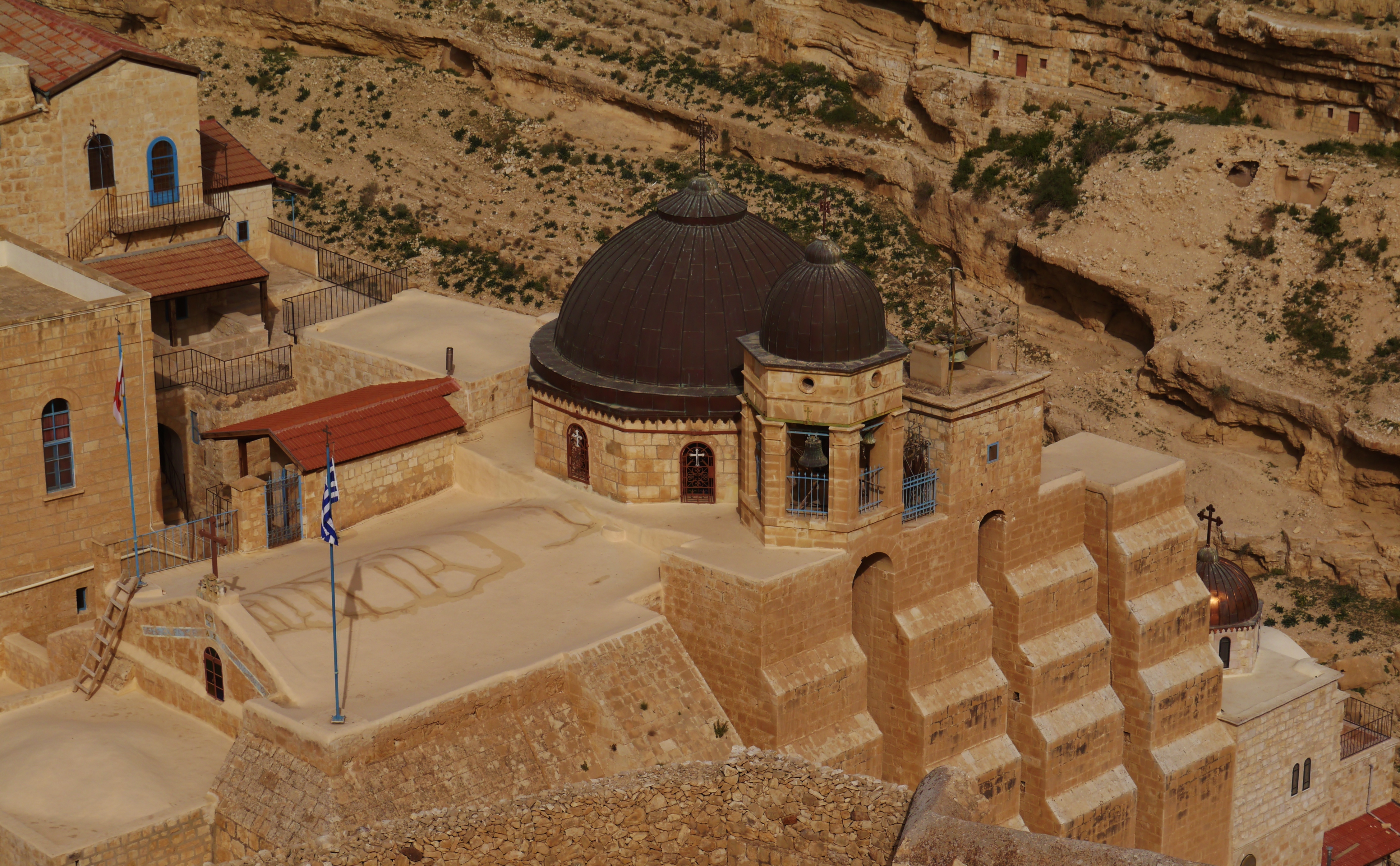 Mar Saba Monastery at the Judean Desert, Palestine